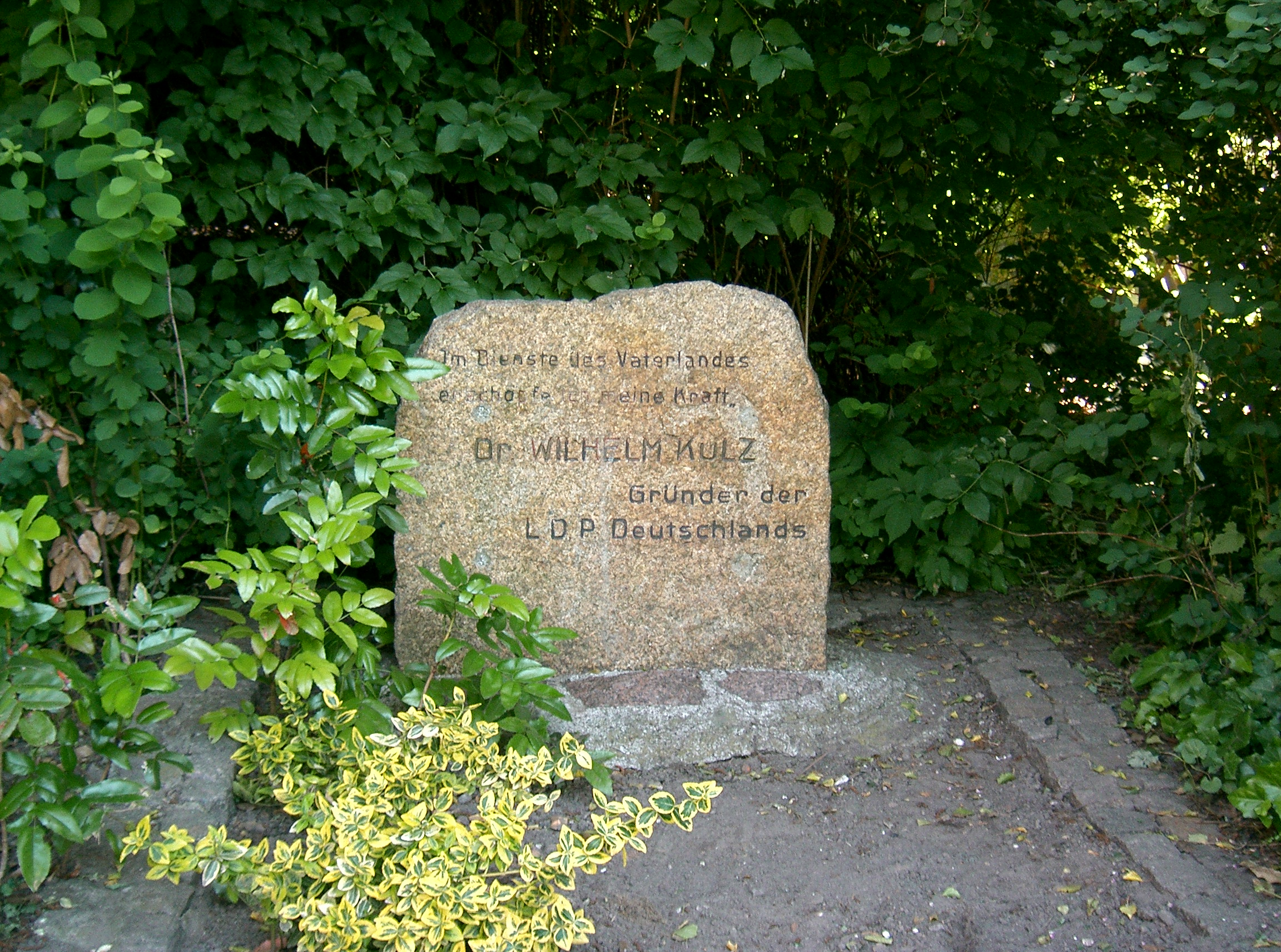 Wilhelm Külz Memorial in Bernau bei Berlin